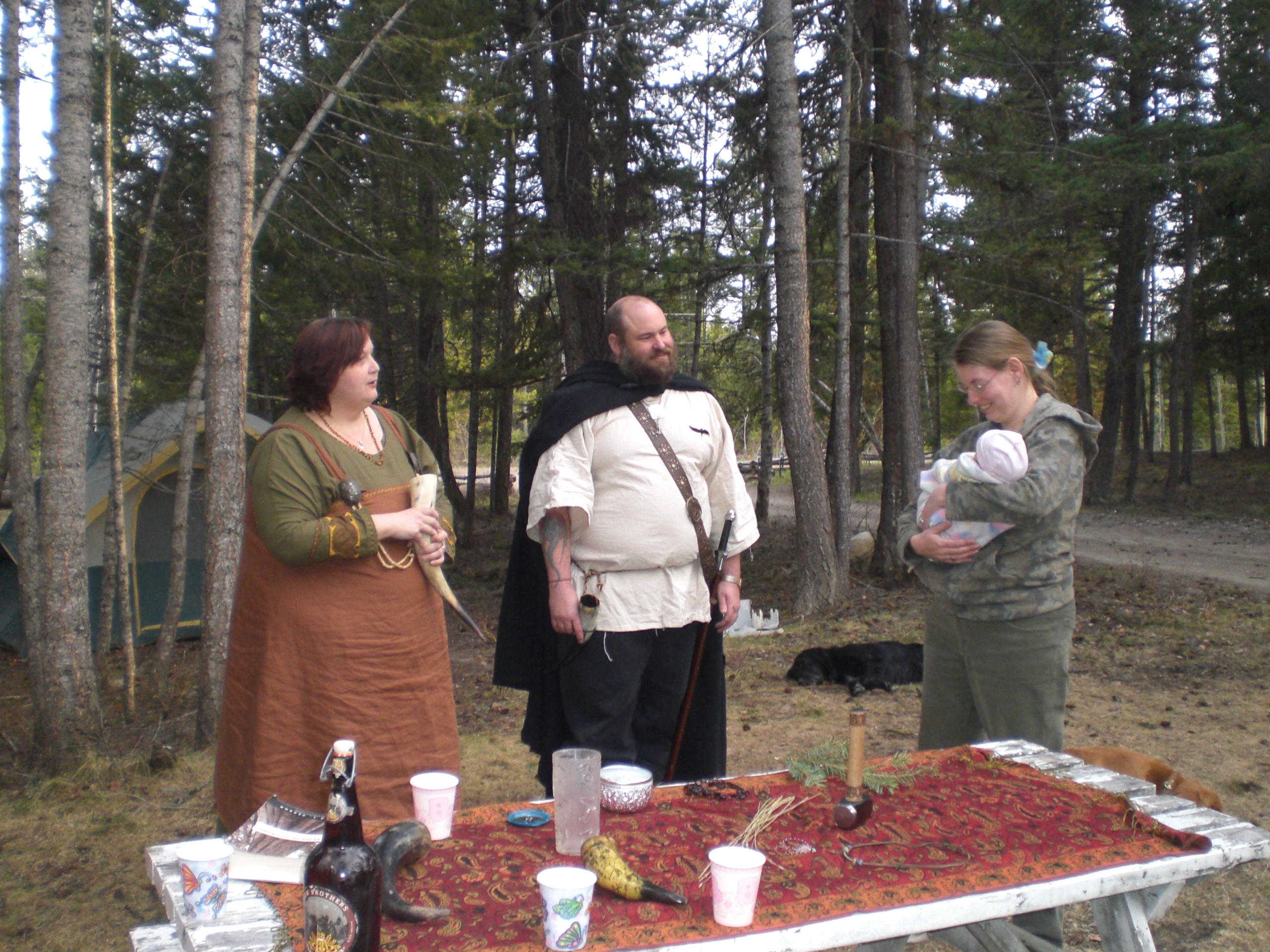 A baby naming ceremony being conducted by the Heathen Freehold Society of British Columbia.